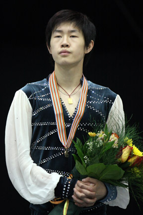 Guan Jinlin on the podium at the 2008 World Junior Championships. He won the bronze medal at this event.